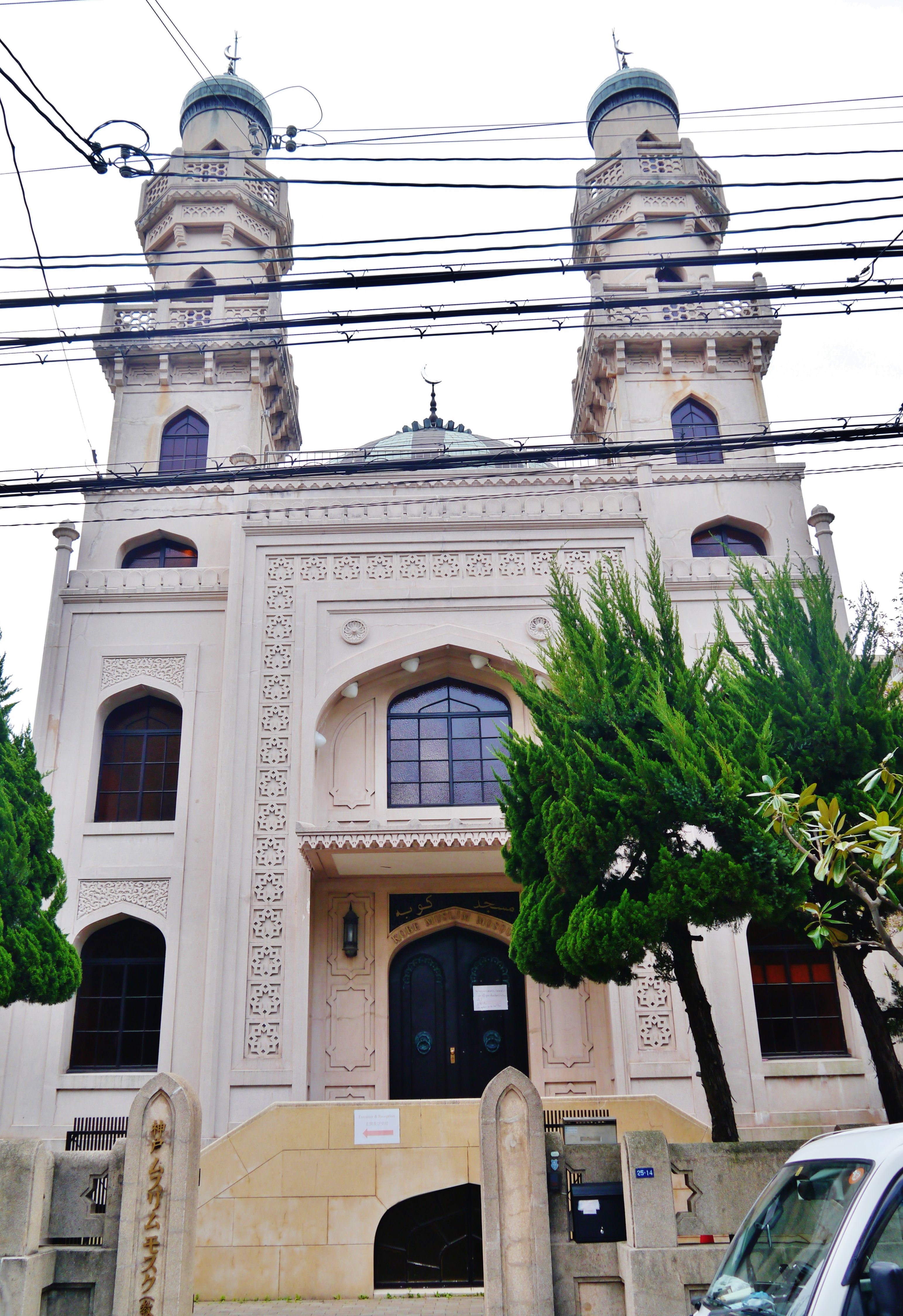 Facade of the Kobe Mosque, Kobe, Hyogo Prefecture, Kinki Region, Japan